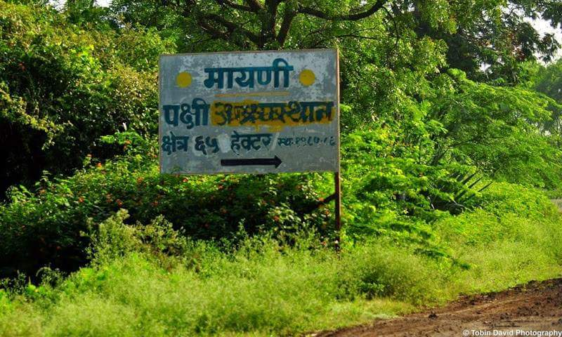 Mayani Bird Sanctuary